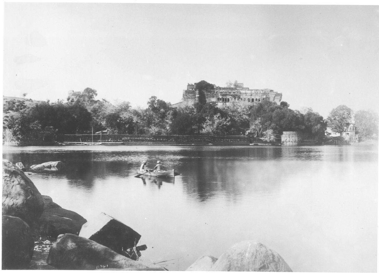 Barwa Sagor Lake in Barwa Sagar, Uttar Pradesh.